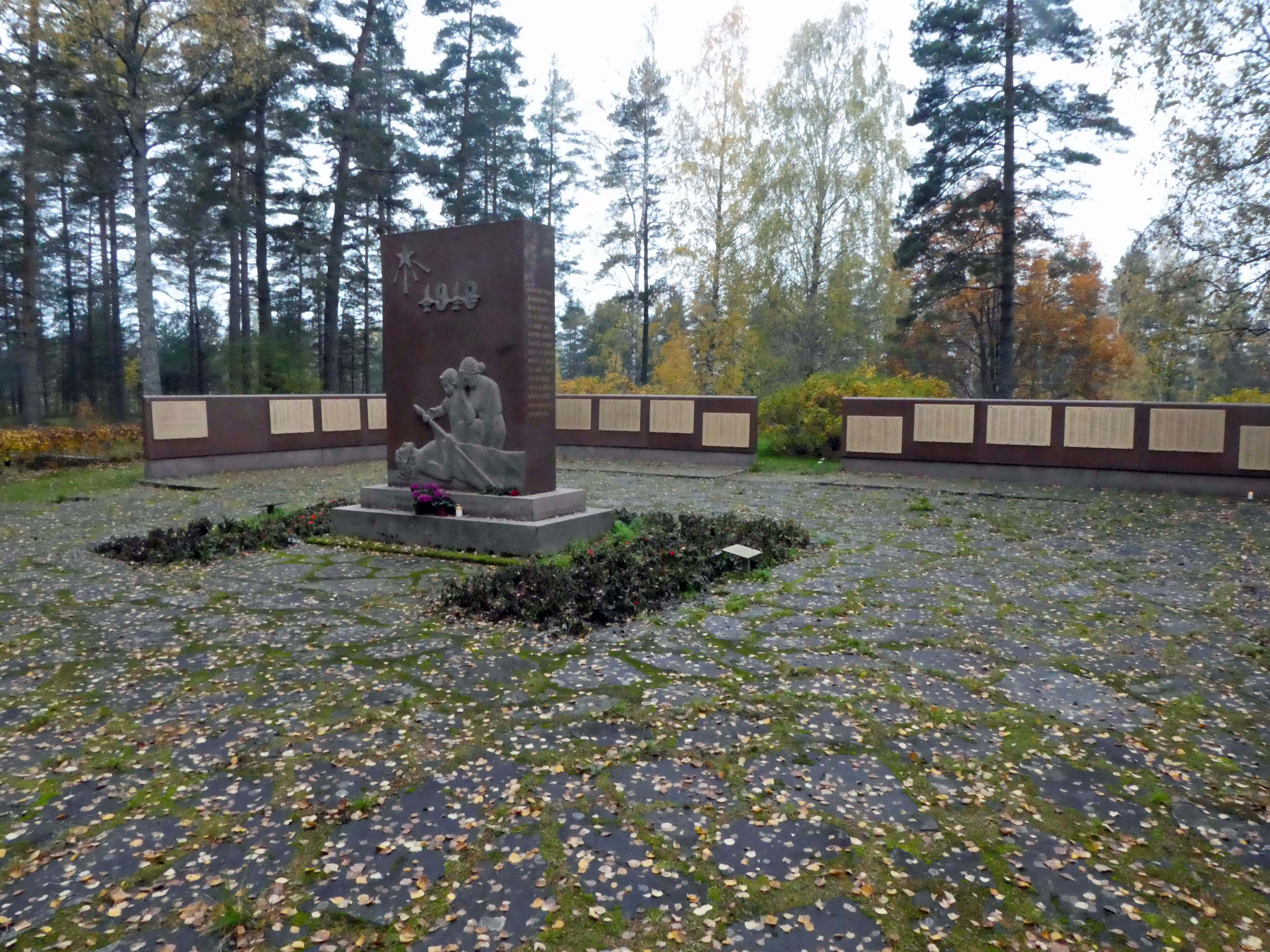 In memory of around the 3 000 persons who died in summer 1918 in the prison camp in Enenäs, Finland